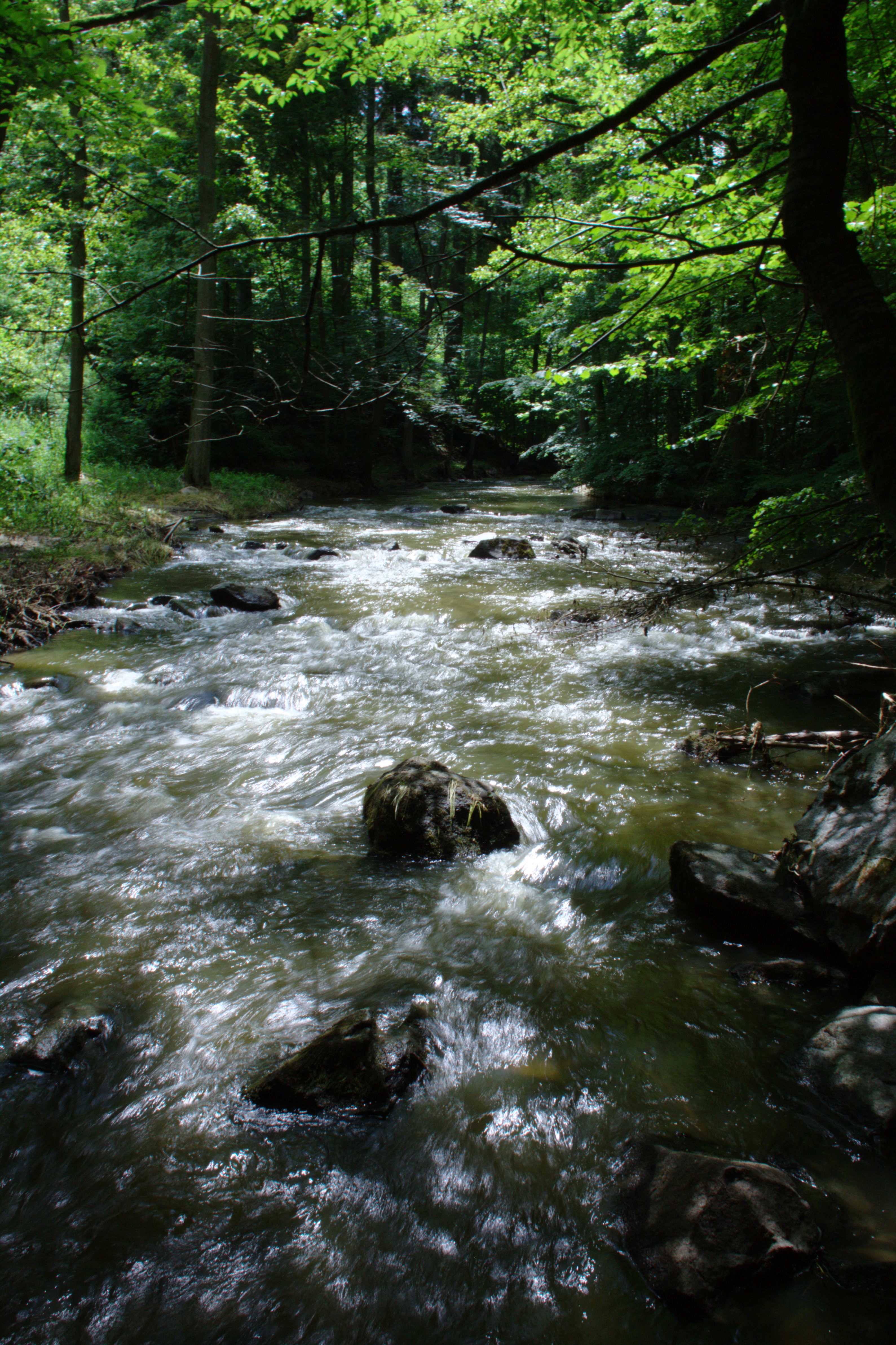 Konopišťský potok Creek near Sázava River, in Poříčí nad Sázavou, Central Bohemian Region, CZ